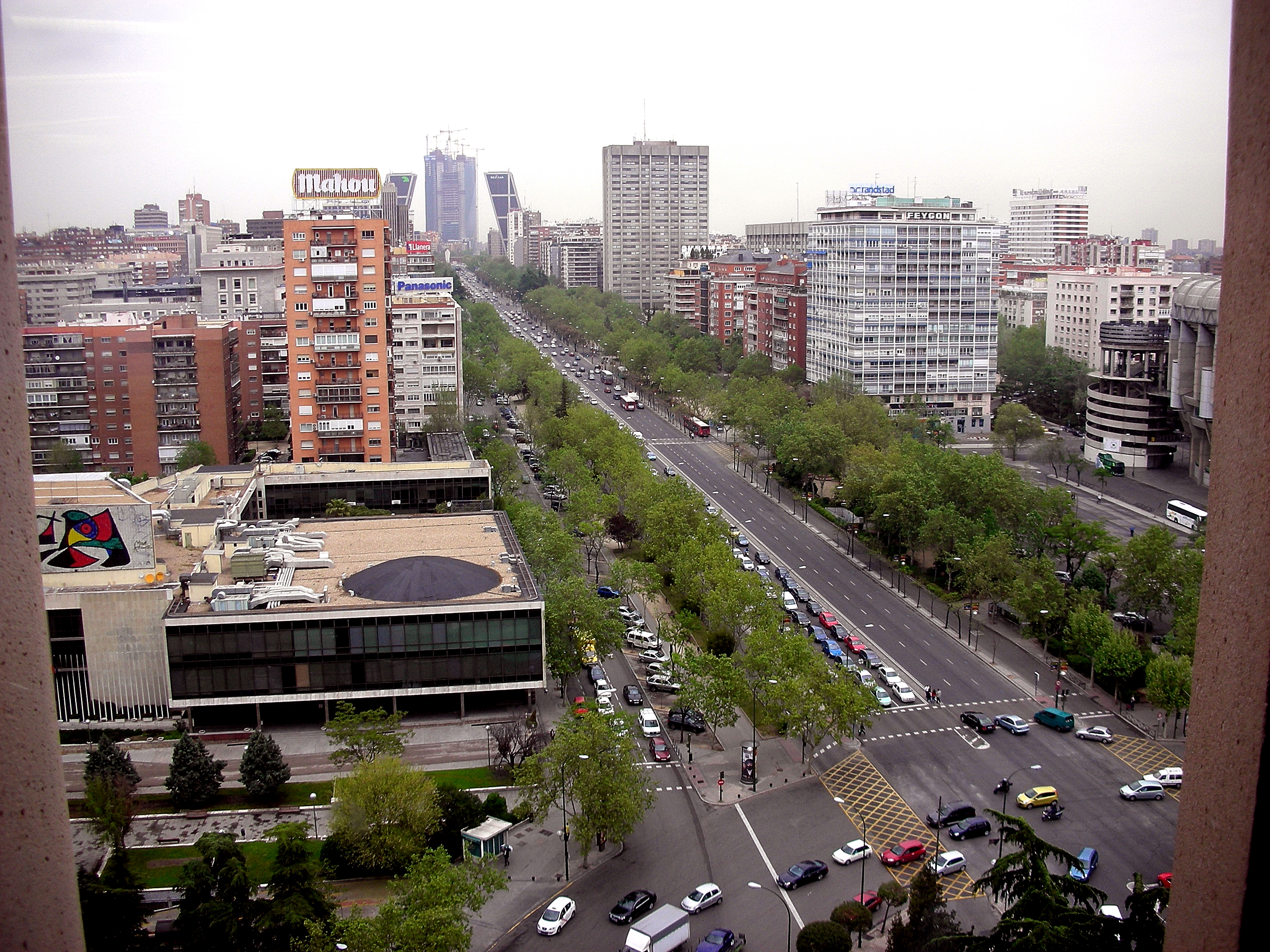 View of the Paseo de la Castellana (avenue) from Torre Europa (building in AZCA business park) in Madrid (Spain).